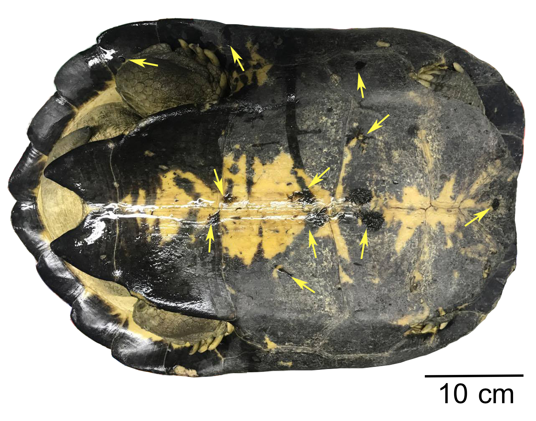 Figure 5B of paper Parasitism of Placobdelloides siamensis on (B) plastron of Heosemys annandalii.